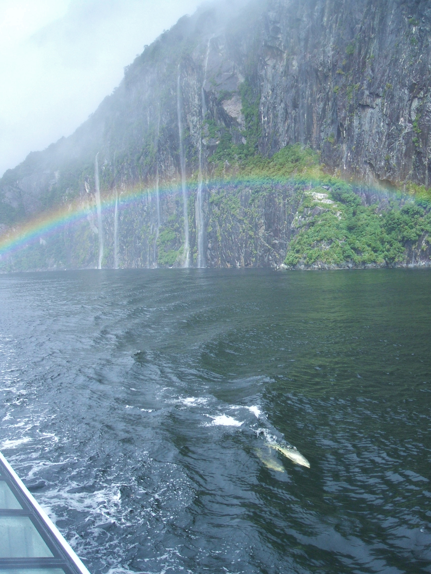 Dolphins follow a boat in Milford Sound, New Zealand.